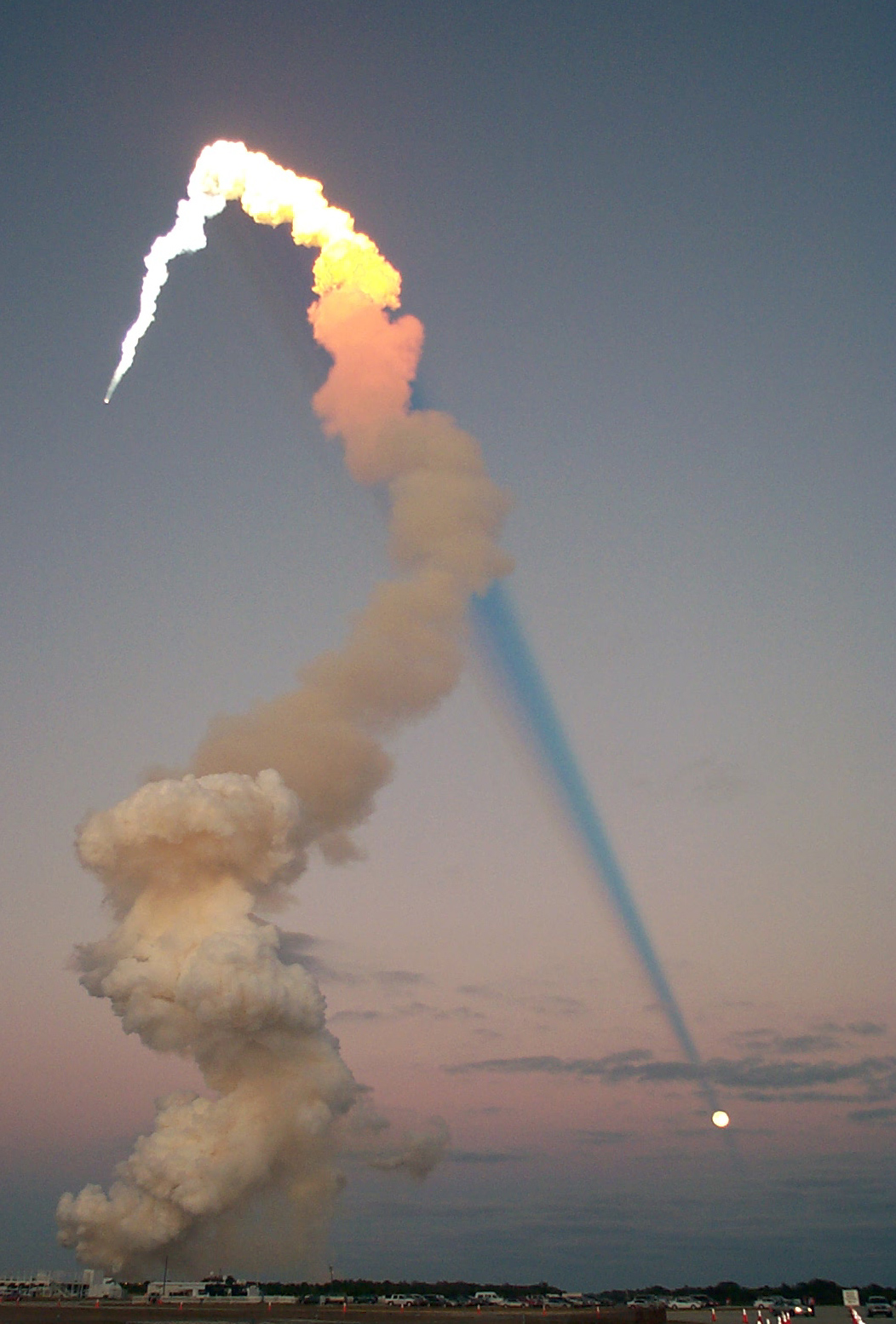 Shuttle Launch at Sunset (Atlantis, February 7th, 2001, STS-98). The sun has set just behind the camera, so only the upper part of the plume is in the glare of the sun. It casts a shadow through the Earth's atmosphere that seems to stretch towards the moon, which is nearly full and thus almost exactly opposite the sun in the sky. The Earth's shadow is also visible, as a dark band of sky below the Moon.